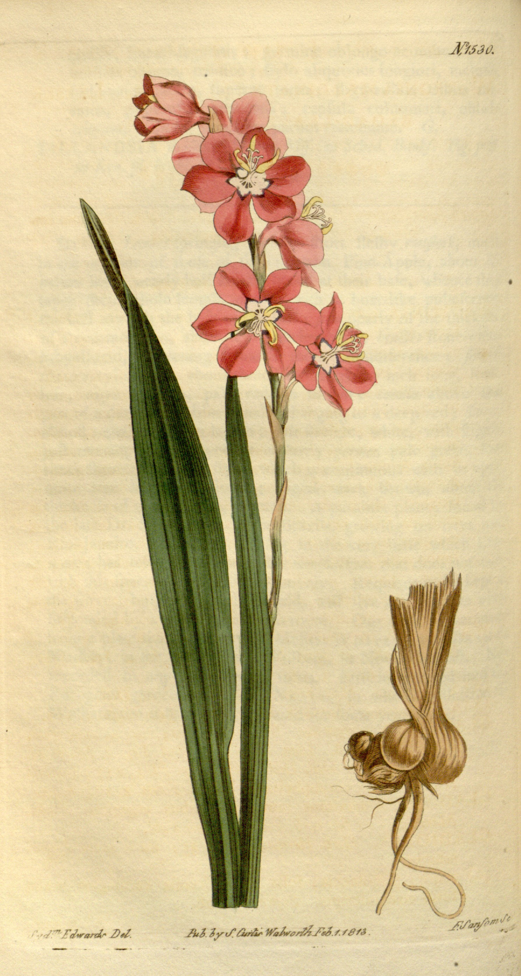 Watsonia marginata, as Watsonia marginata var. minor